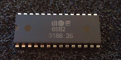 Sound Interface Device chip produced in 1986